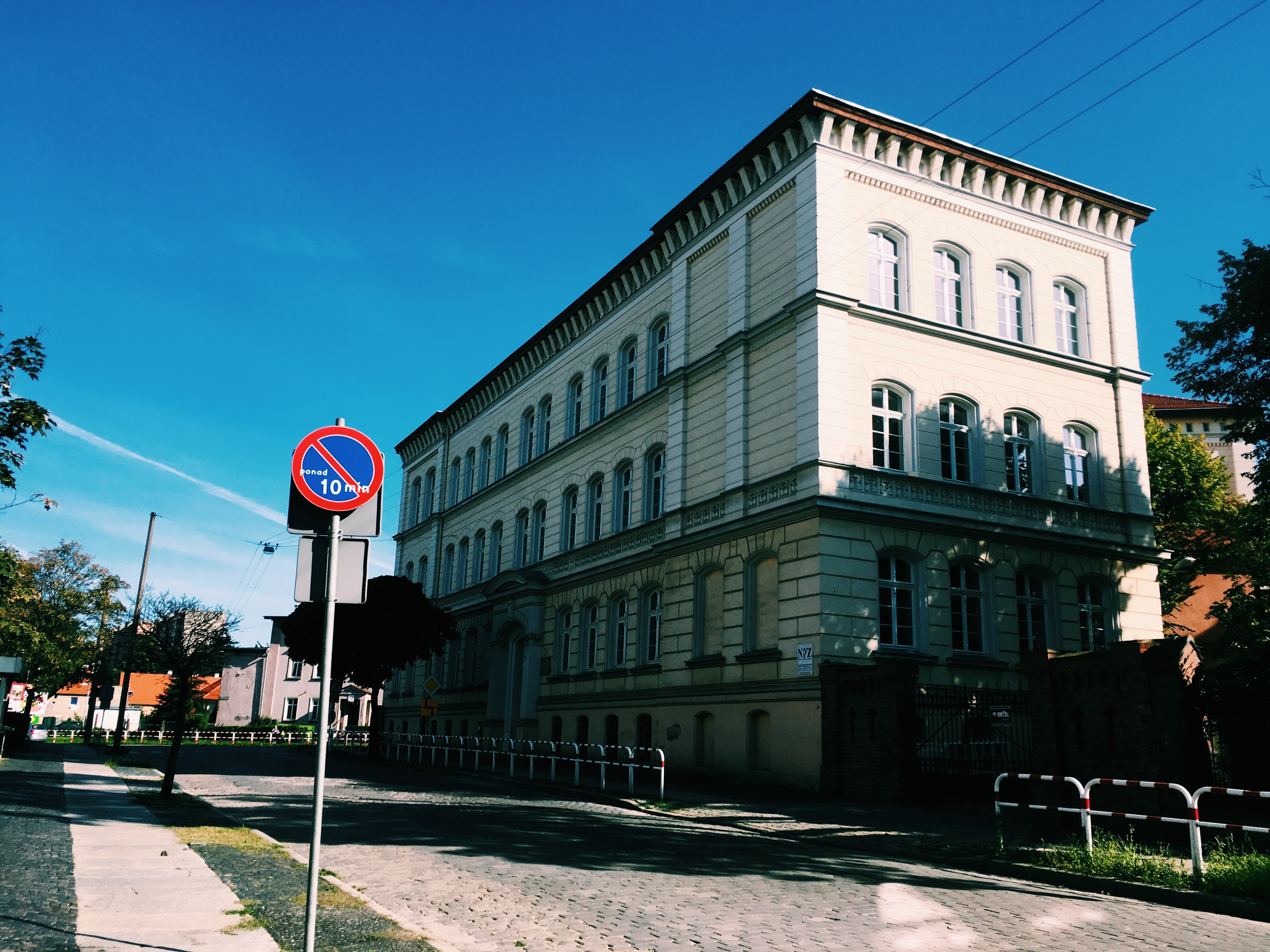 Public primary school no. 3 in Brzeg. View from Kamienna Street.